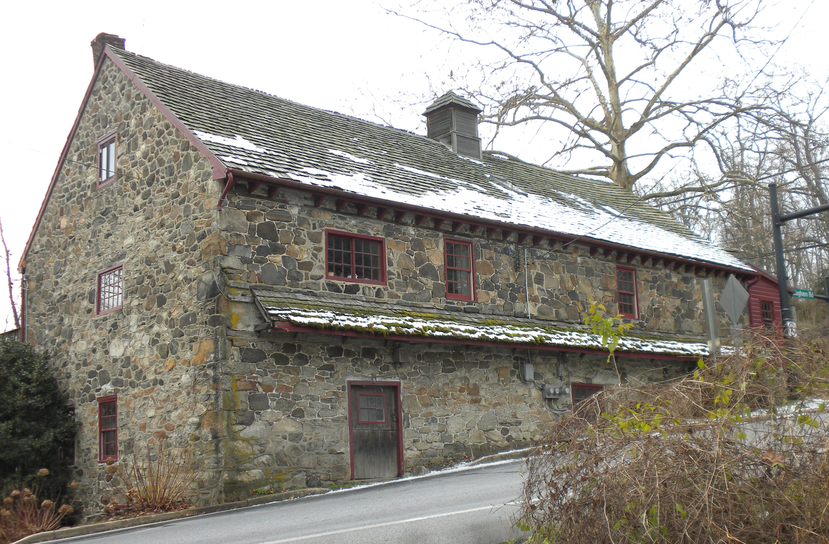 Strodes Mill, in Chester County, PA. On NRHP. This photo is my own work and I donate it to the public domain.